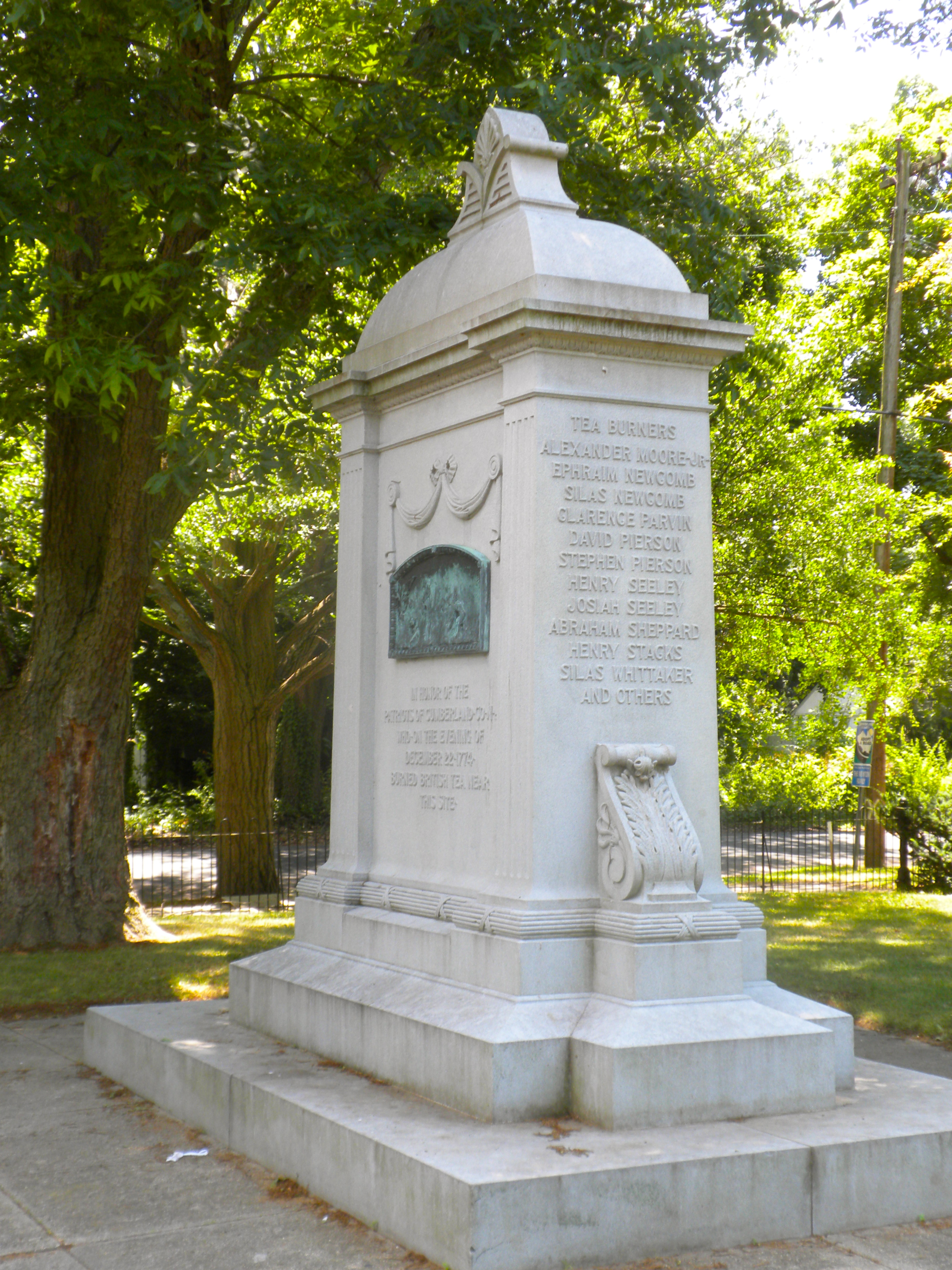 Teaburner's Monument in Greenwich, New Jersey. Part of Greenwich Historic District on the NRHP since January 20, 1972. HD is on Main St.(Greate Street now) from Cohansey River N to Othello. Teaburner's Monument marks the last Tea destruction before the US Revolution in December 1774. Monument was constructed in 1903? At corner of Greate Street and Market, Greenwich, Cumberland County, New Jersey